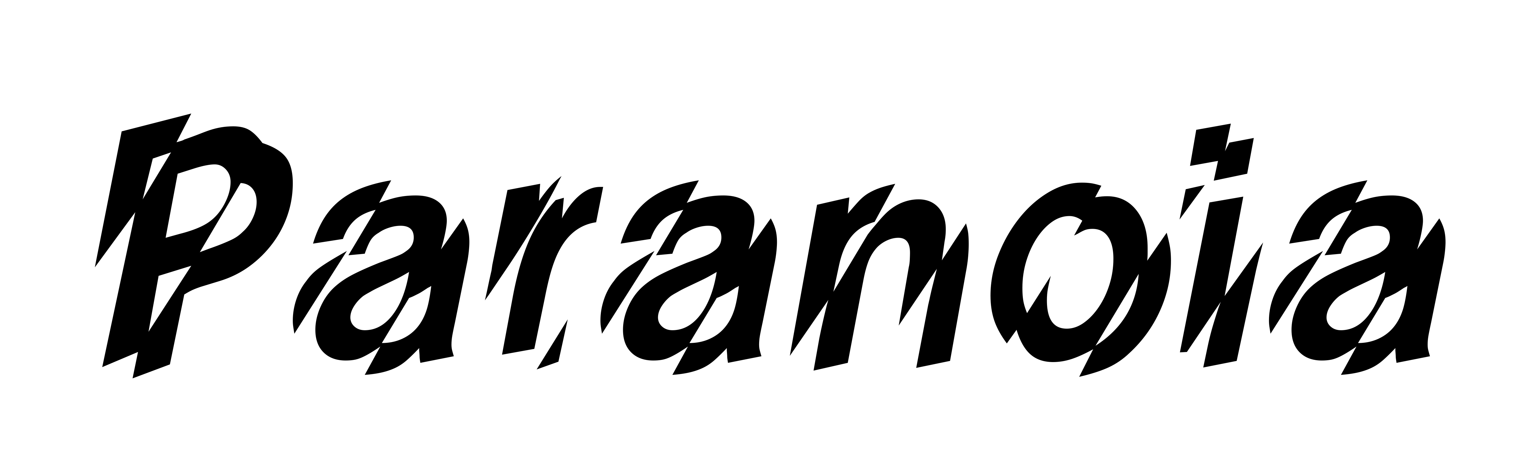 An example of the typeface Shatter, created from Helvetica by Vic Carless.